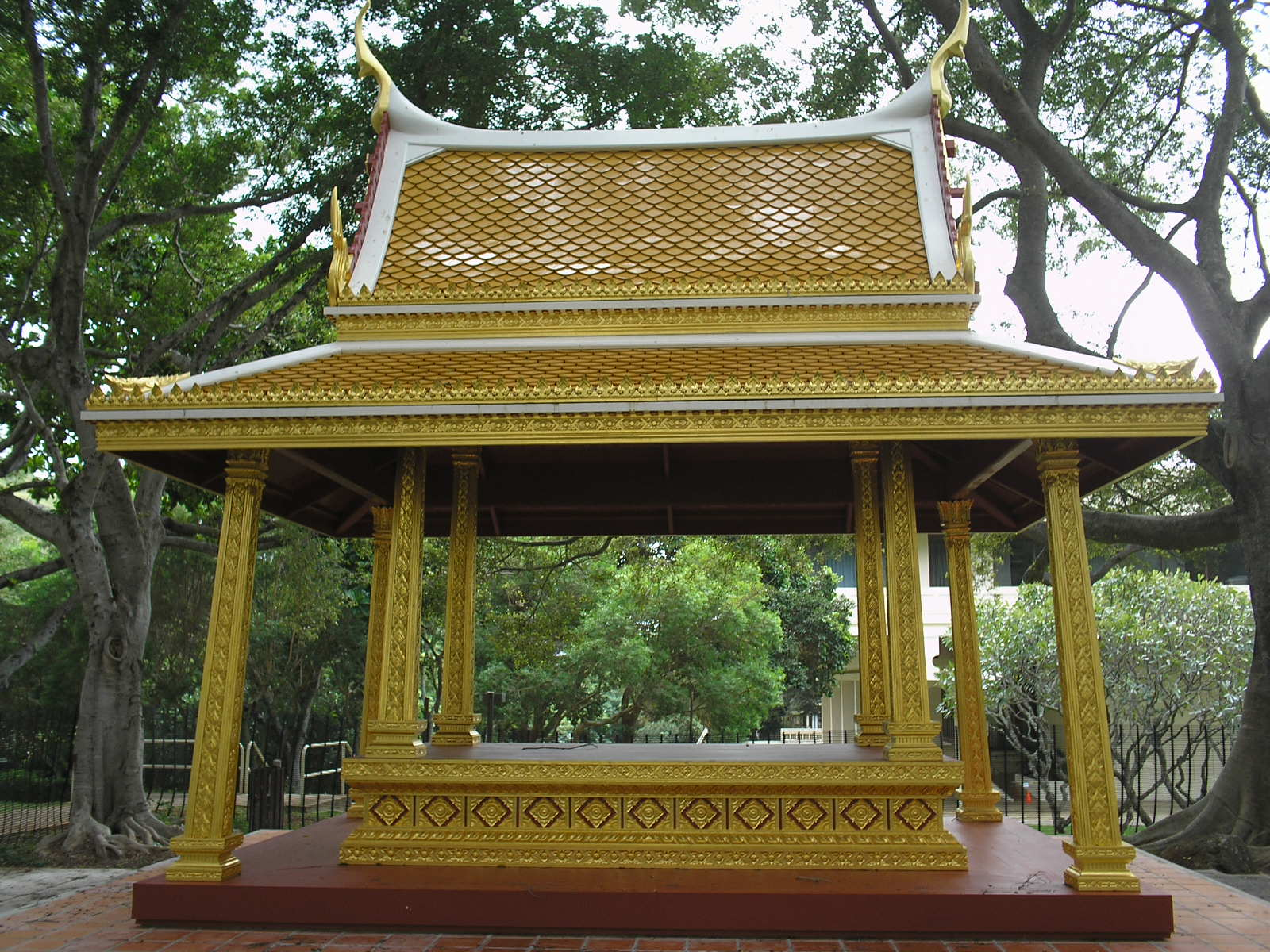 Thai Pavilion (sala), East-West Center, Honolulu, Hawaii, donated by King Bhumibol Adulyadej and Queen Sirikit of Thailand in 1967, reconstructed in 2006